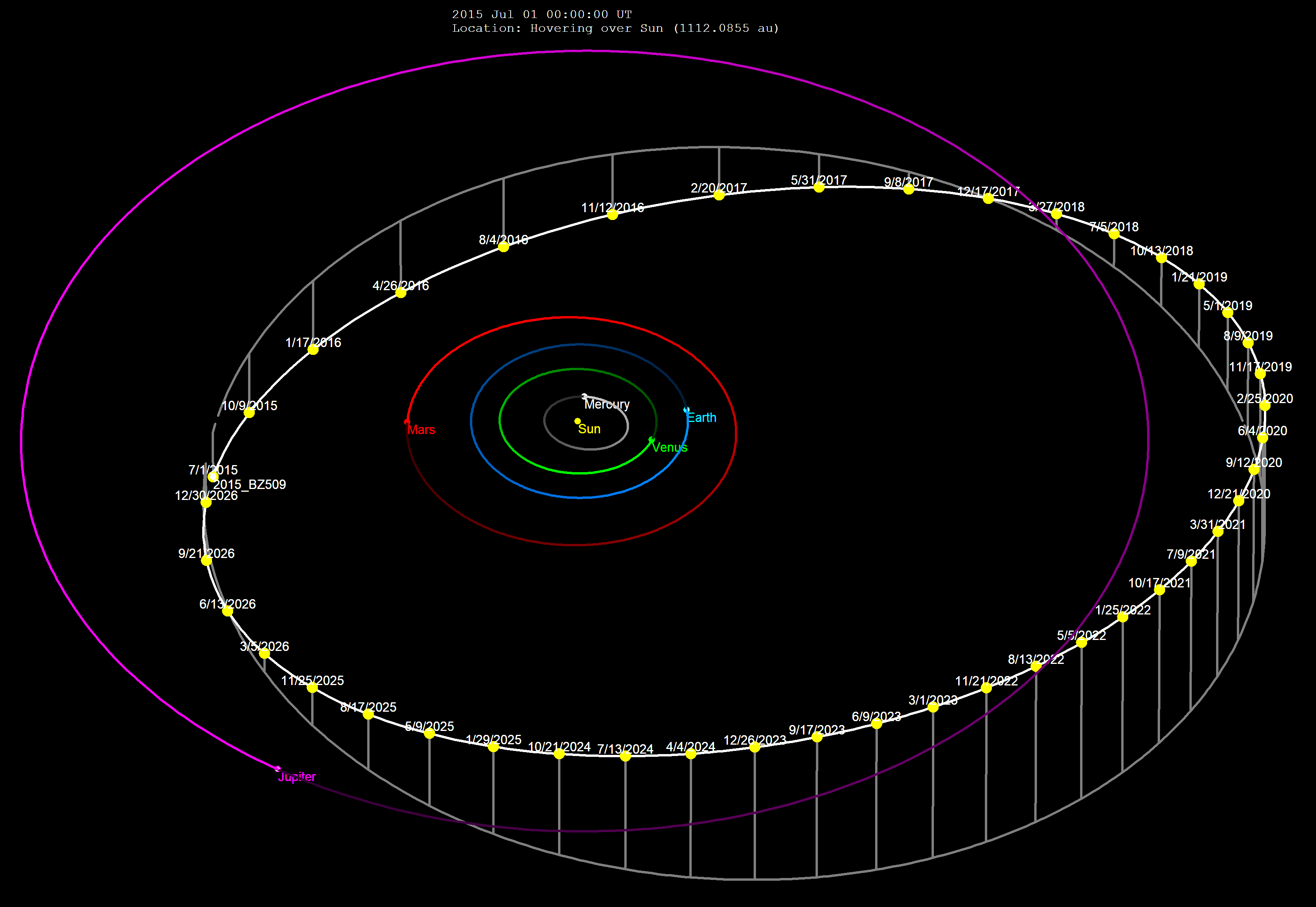 en:2015 BZ509 orbit